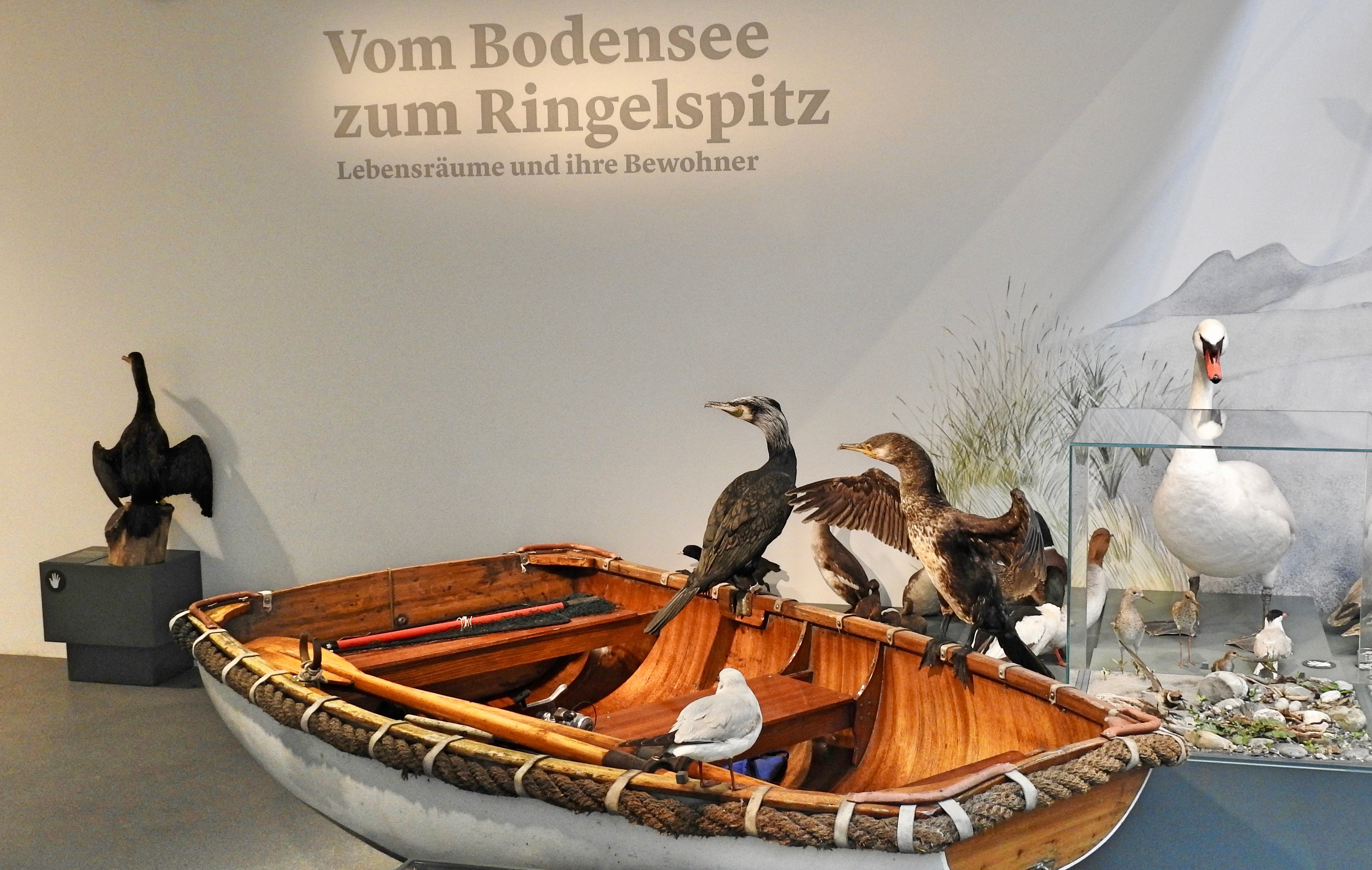 Exhibition Room in the Nature Museum in St.Gallen, Switzerland.